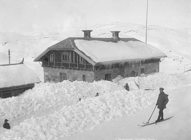 Hallingskeid railway station on Bergensbanen in Ulvik, Norway.